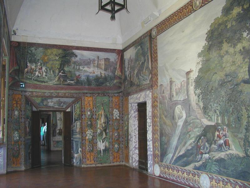 Tivoli, Villa d'Este: noble apartment, room of the Hunt (the last, from which you descend to the garden via a staircase "a slug").